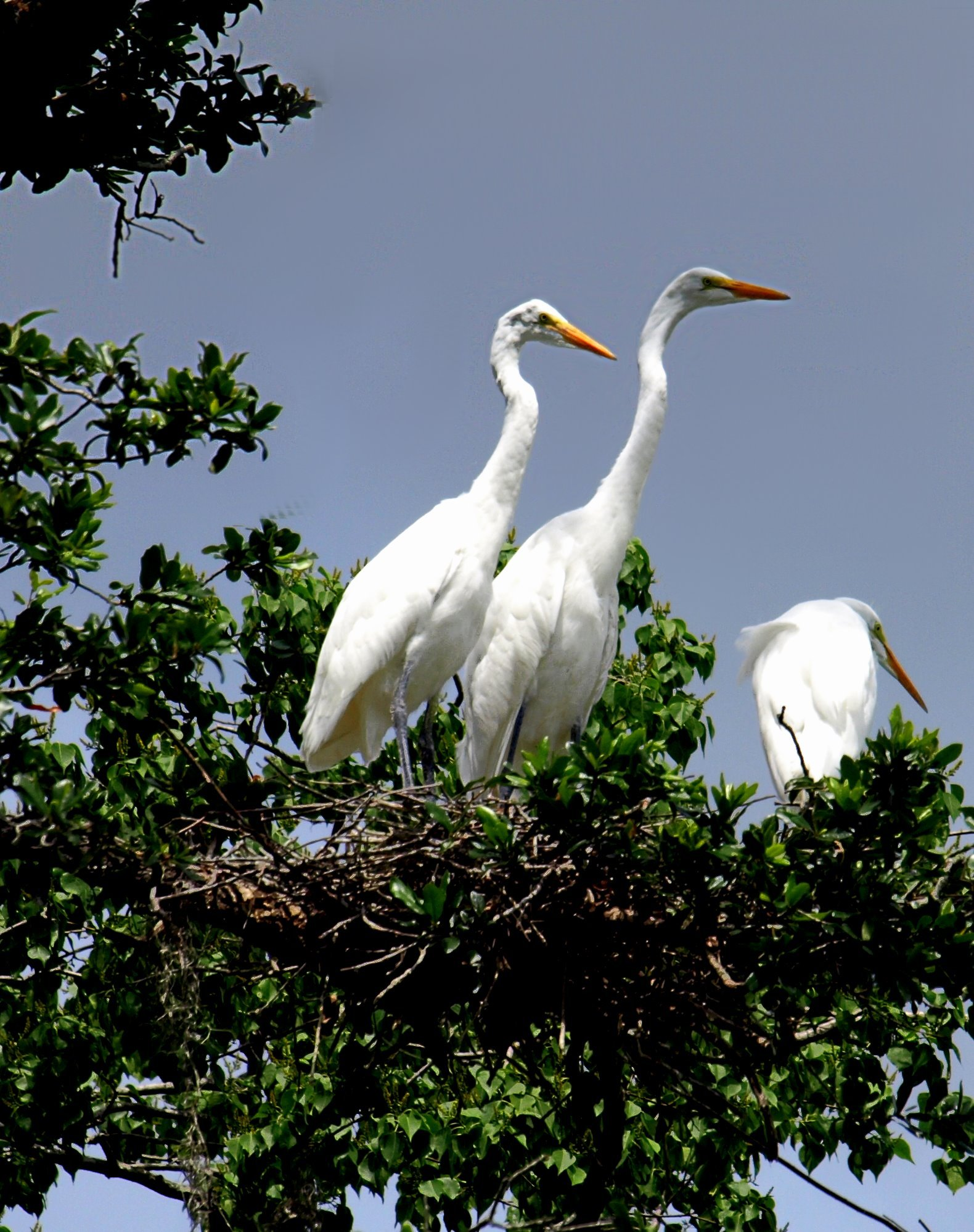 Great Herons in tree. Oshner Island Rookery, Audubon Park, New Orleans,La.